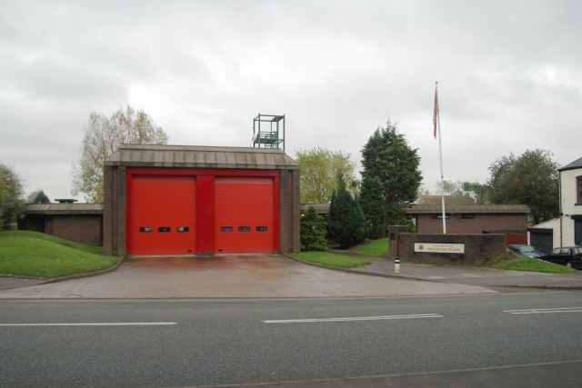 Hollins fire station Hollins fire station, 291 Hollins Road, Oldham, Greater Manchester